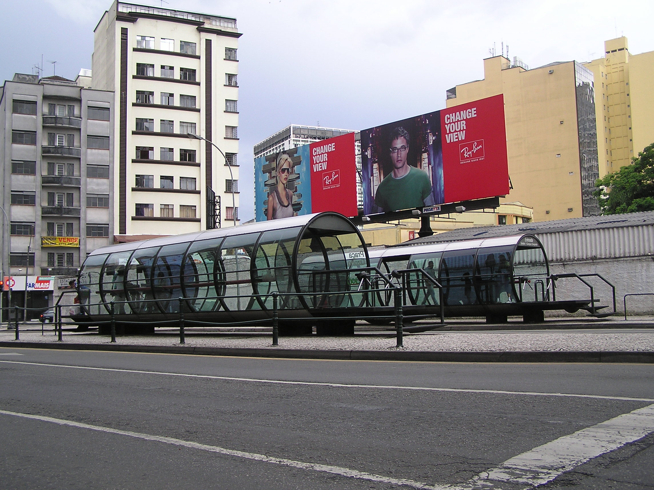 Bus Stops